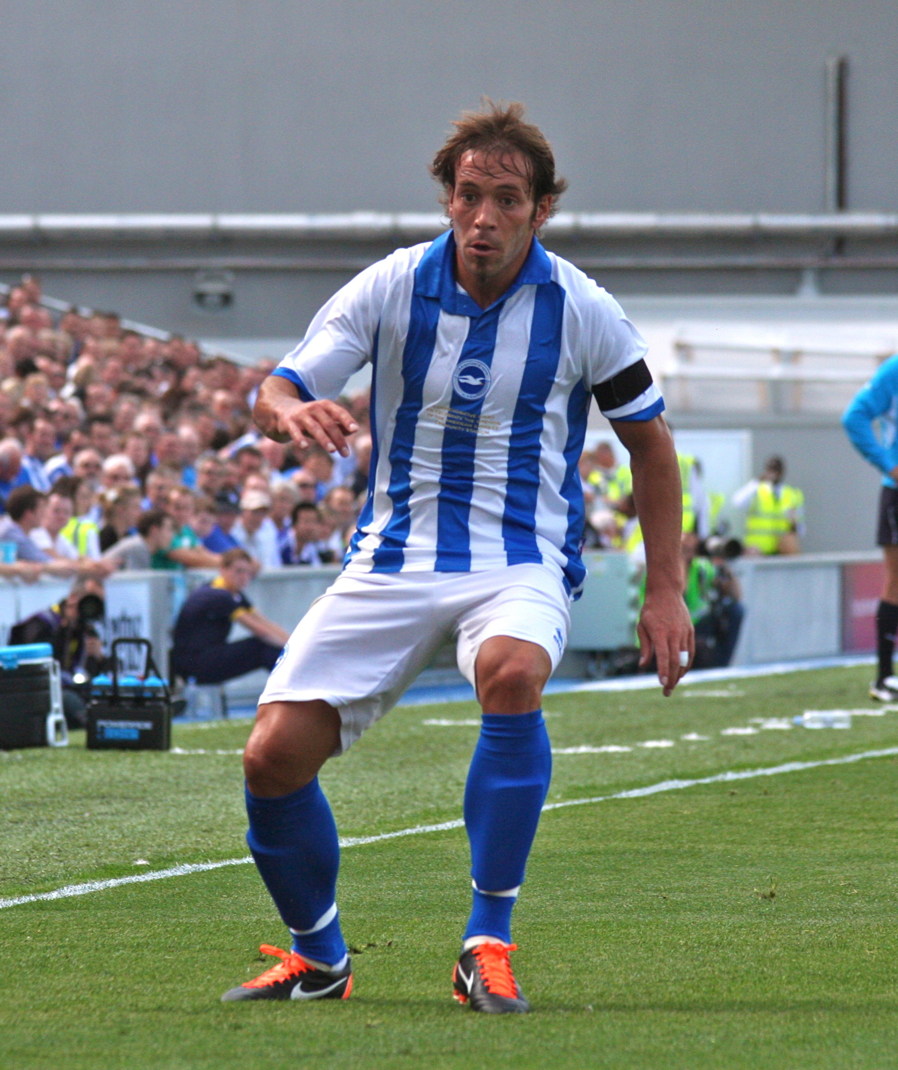 Brighton v Spurs Amex Opening 30/7/11